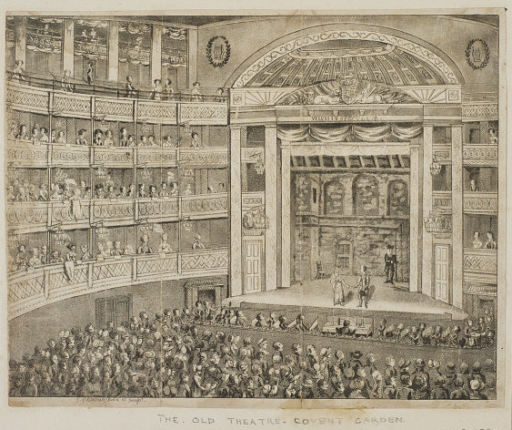 The Old Theatre. Covent Garden. 1815 Victoria and Albert Museum, London, Museum number: S.63-1997